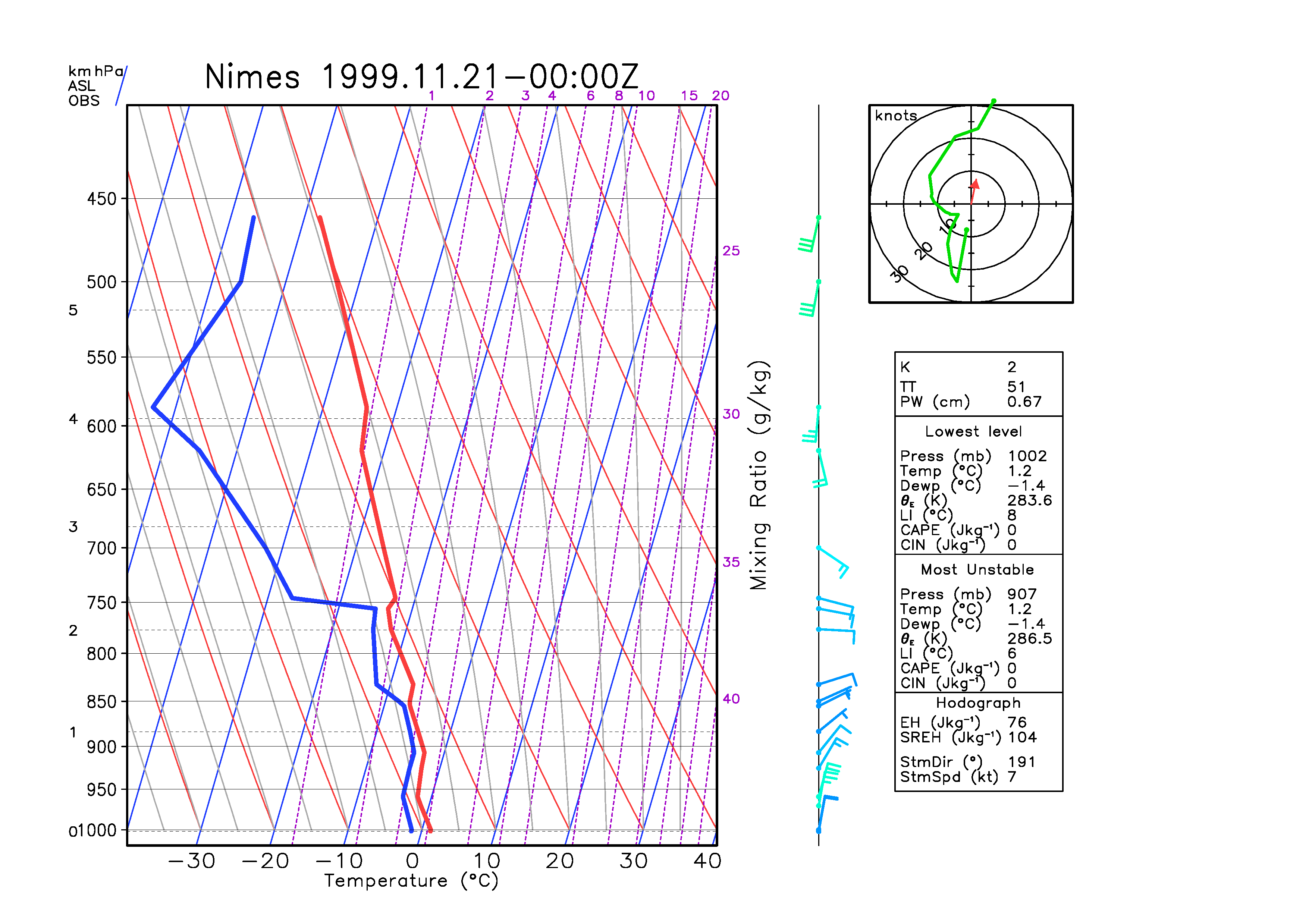 Atmospheric sounding above Nîmes on 19991121 at 00:00Z